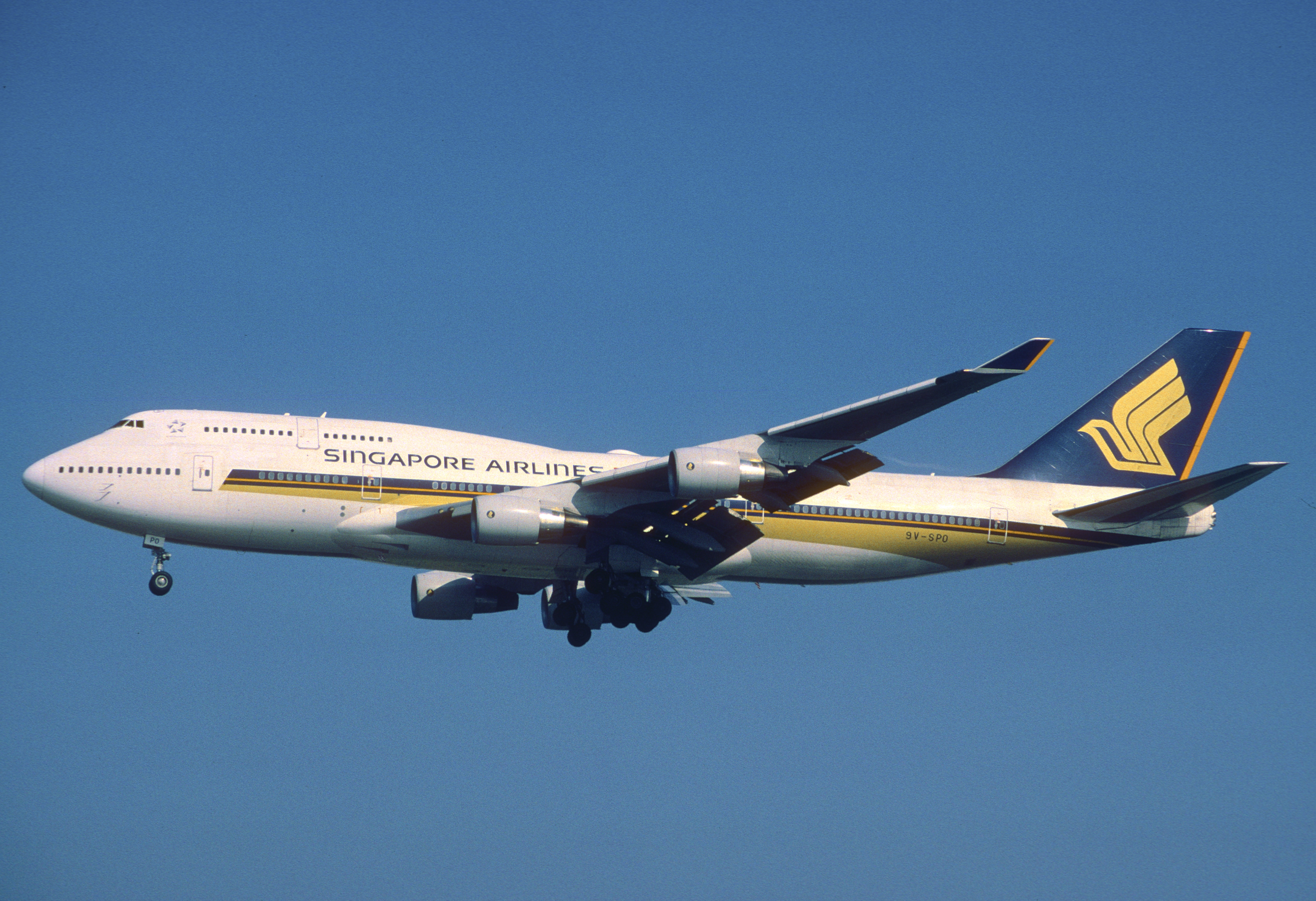 This Boeing 747-412 took its first flight on March 17, 2001...(c/n 28028/ 1270) 29/03/2001 Singapore Airlines 9V-SPO 04/11/2011 Transaero Airlines EI-XLM